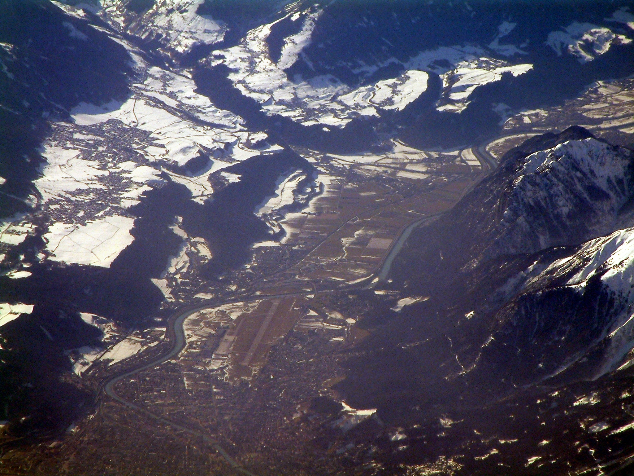 Aerial view of the Austrian Inntal with Innsbruck airport from east to west.